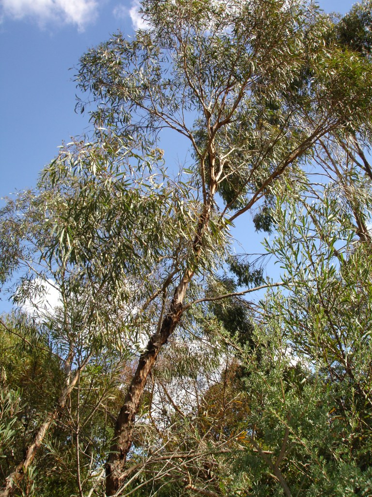 Eucalyptus polybracteaPhotographed at Maranoa Gardens, Melbourne, Victoria, Australia by HelloMojo.